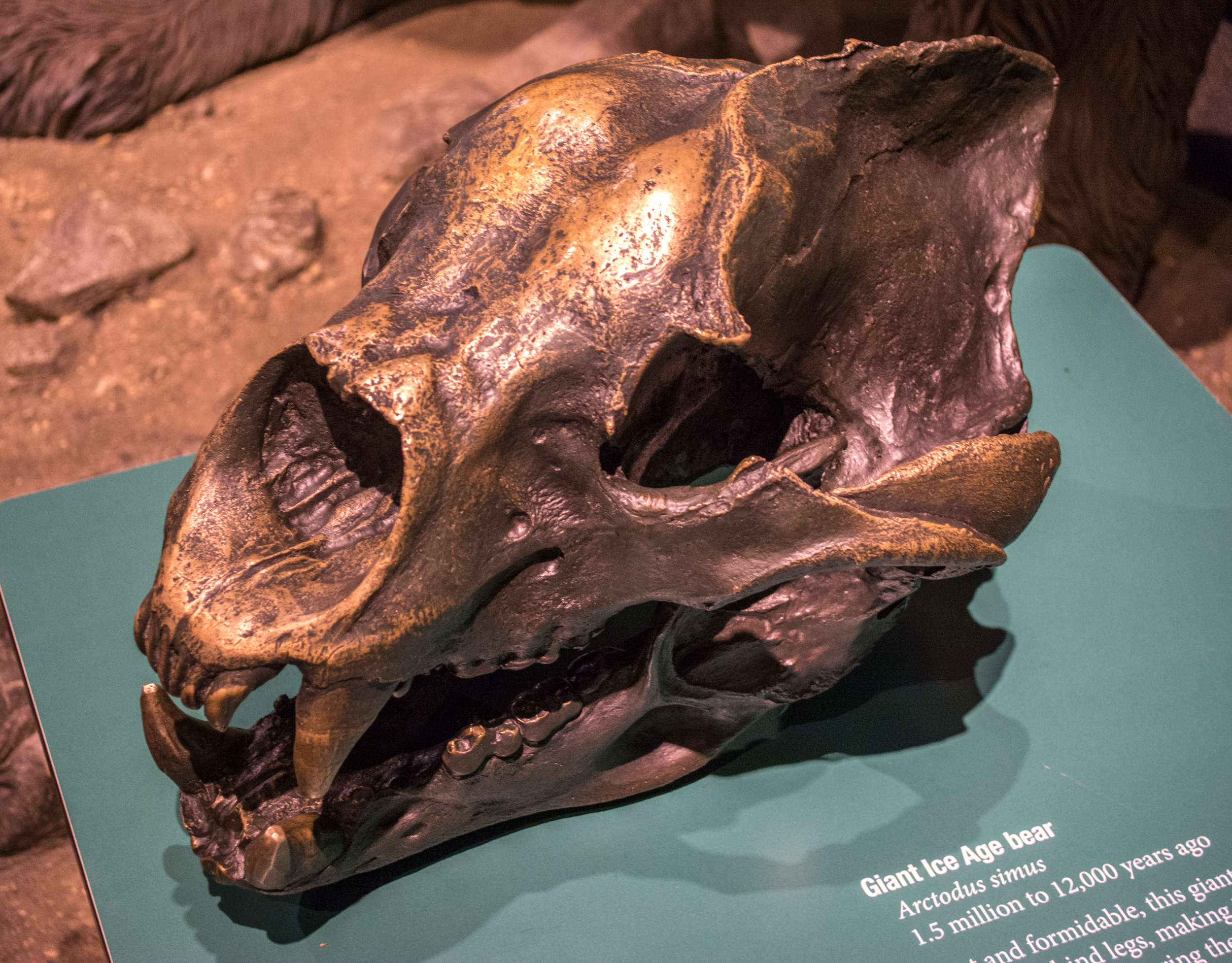 Skull of a short-faced bear (Arctodus simus) at the Cleveland Museum of Natural History in Cleveland, Ohio. The short-faced bear inhabited North America from about 1.8 million years ago until 11,000 years ago.